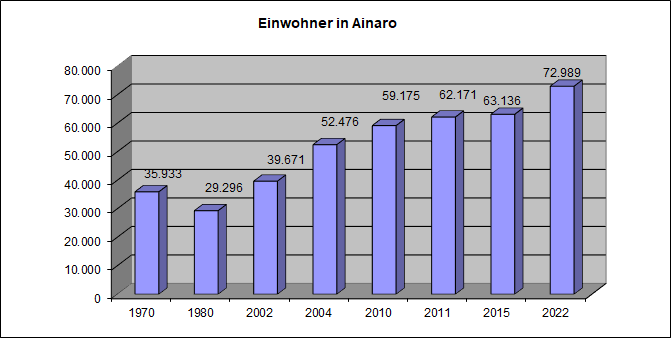 Population in Ainaro/East Timor